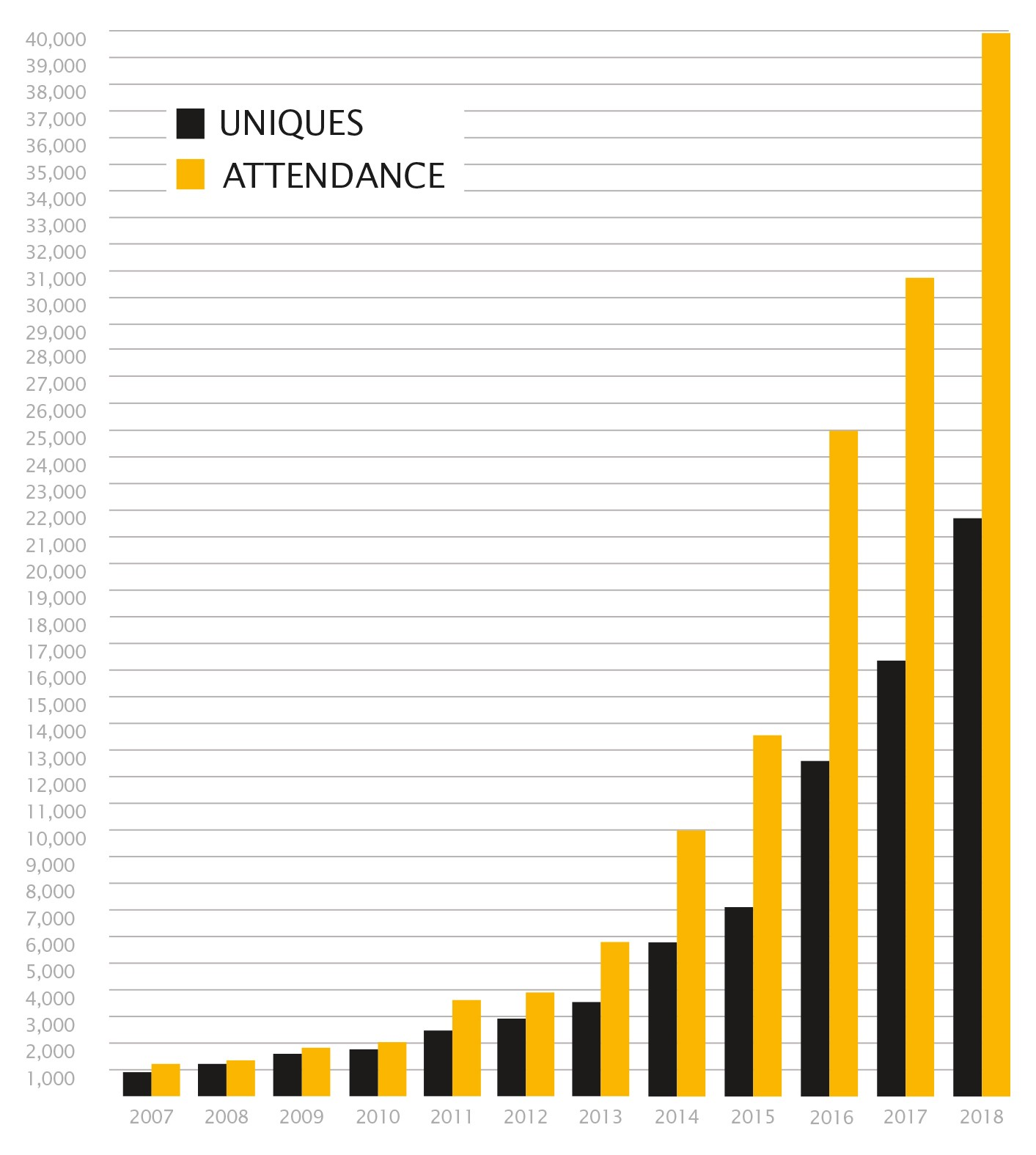 This graph shows annual attendance at the UK Games Expo since its first year (2007). On the graph uniques means how many unique individuals attended the event. EG Tom and Bertha attend UKGE. They count as 1 unique attendance each or 2 uniques between then, Attendance is how many people came adding together the turnstile each day. Tom went for 2 days so he counts at 2 attendances. Bertha goes for 3 days so counts as 3. Thus Tom and Bertha contribute 2 uniques but 5 attendance.